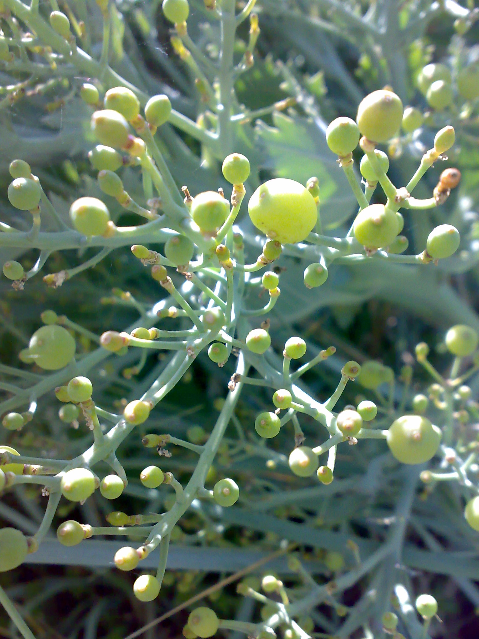 Crambe maritima fruits, late june, Norway